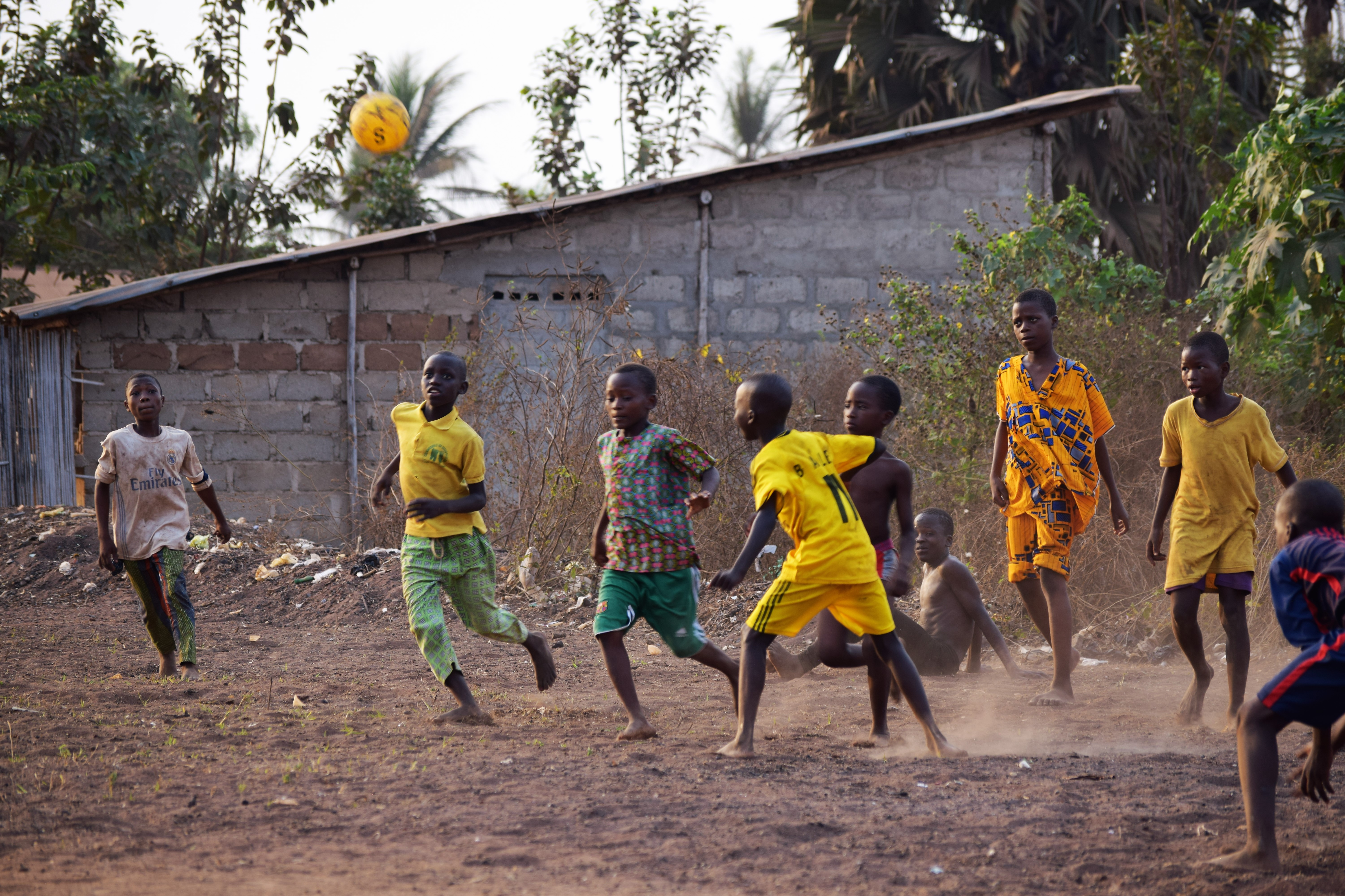 This is an image with the theme "Play" from: Benin